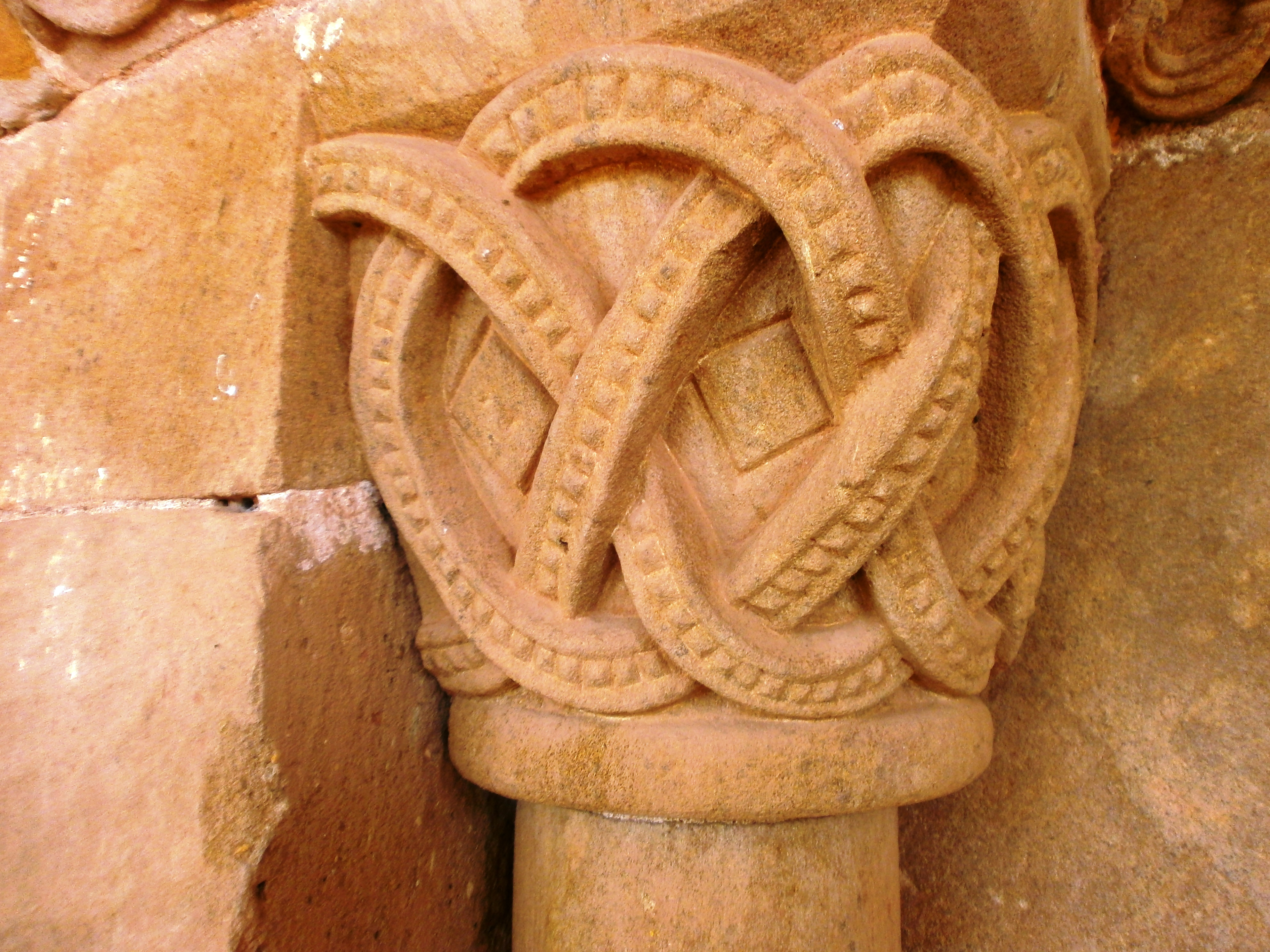 Lugás-detalle capitel izq-pta lateral